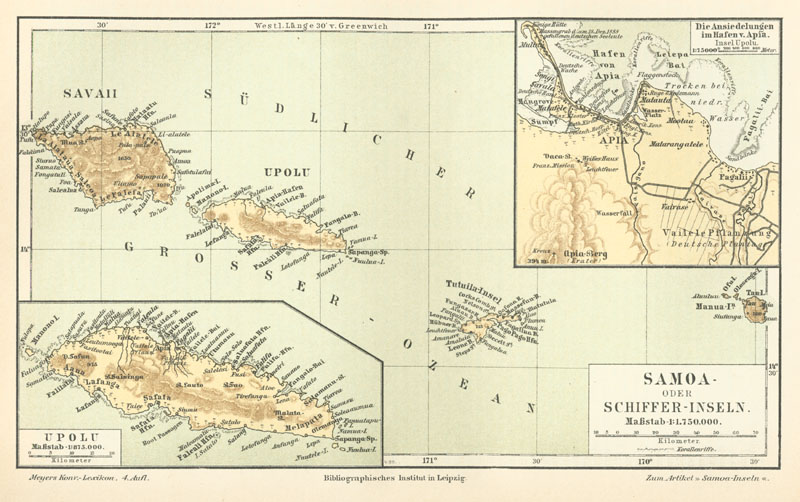 This is a German map of Samoa (c.1888), on page 260a of 1052, in Volume 14 of the German illustrated encyclopedia Meyers Konversationslexikon, 4th edition (1885-1890), fraktur font.